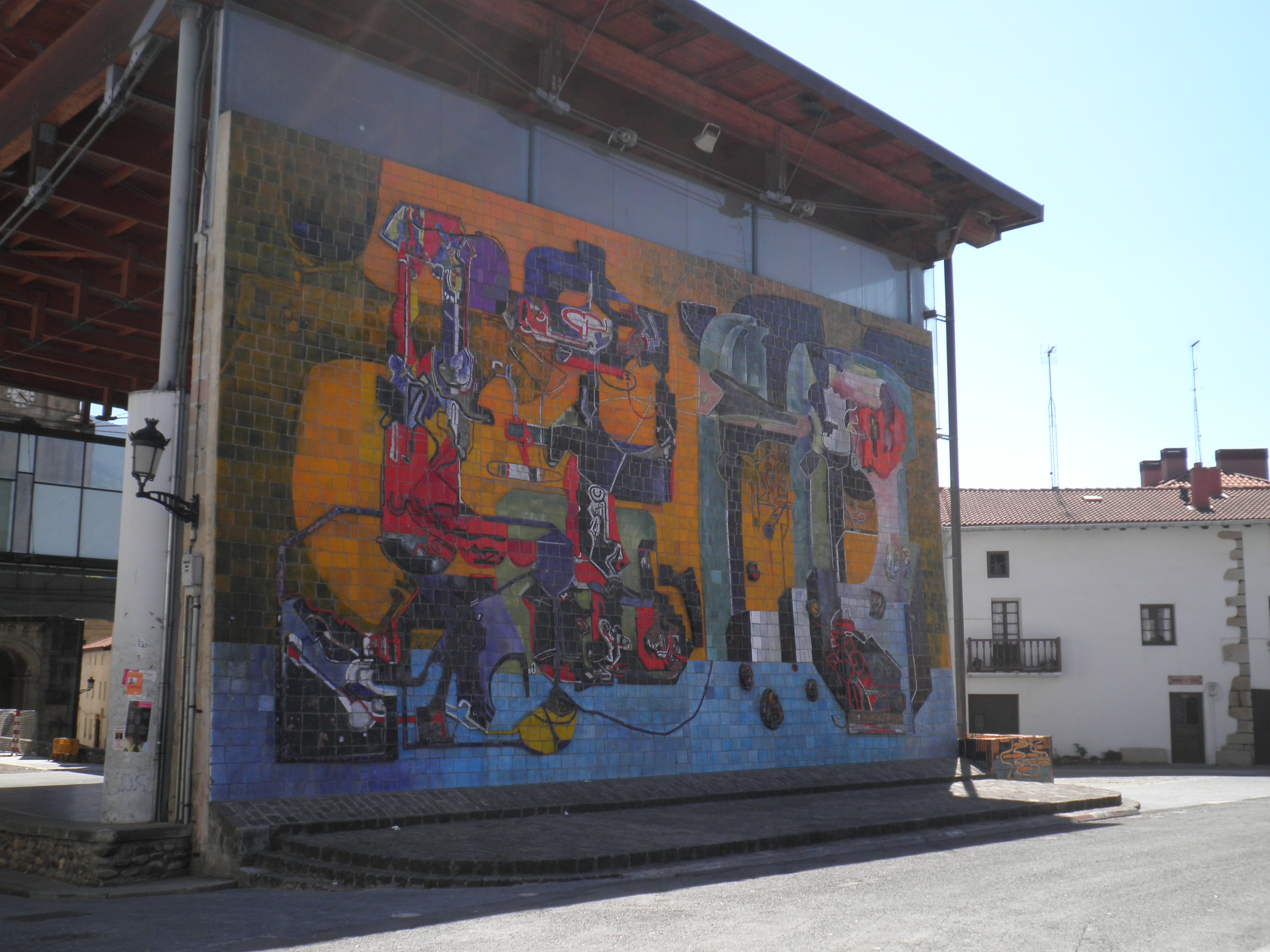 Zumeta's mural in Usurbil pilote court.